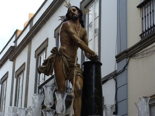 Santísimo Cristo del Granizo